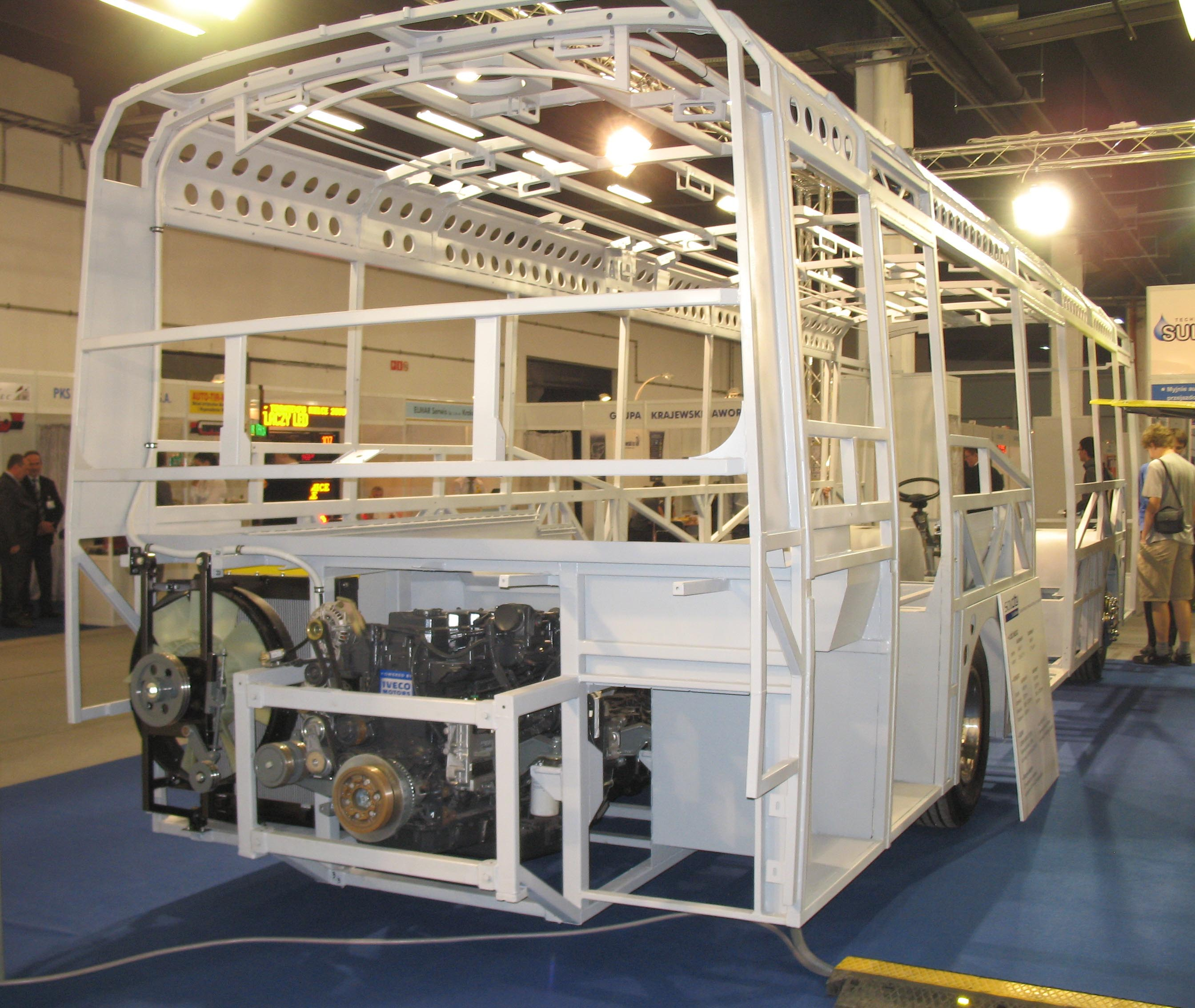 Solbus Solcity SubUrban 10 body bus in Kielce, Poland. Transexpo 2009. Iveco N60 ENTC Euro 5 diesel engine.